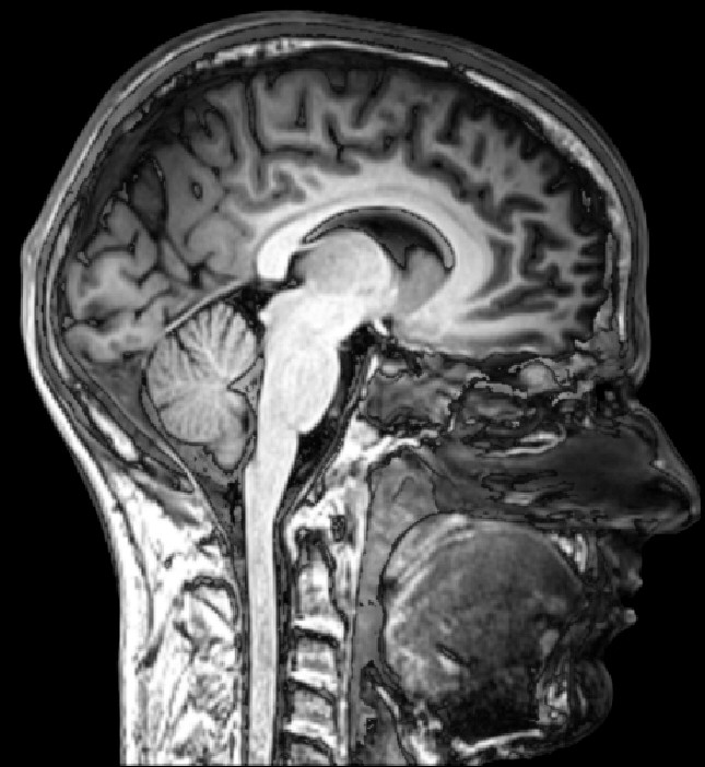 A sagittal section of a human head show by MRI. It is approximately mid-line.